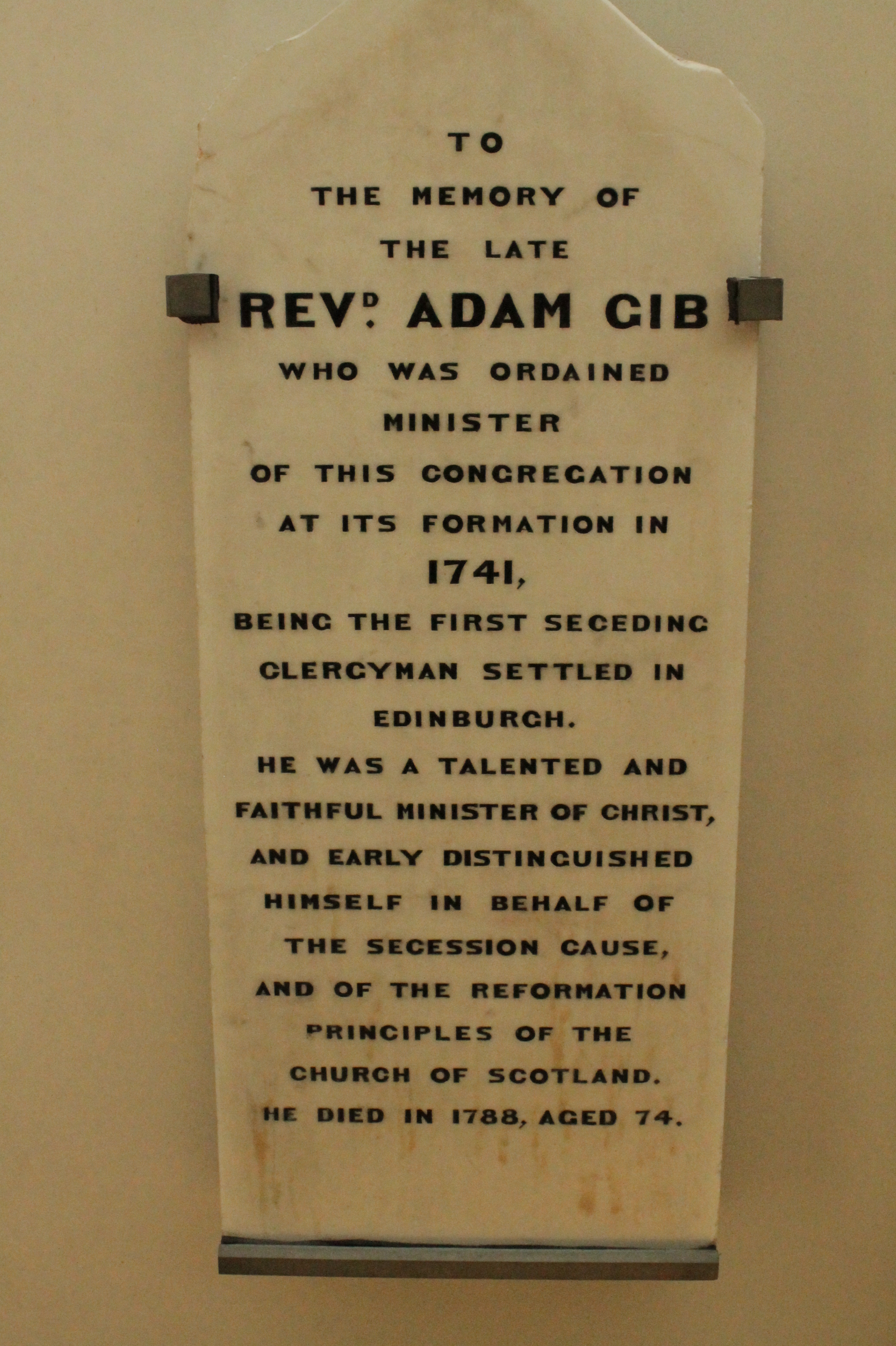 Memorial to Rev Adam Gib, from Bristo St Secession Church, National Museum of Scotland - note the museum misidentifies the plaque as being from Nicholson St Church